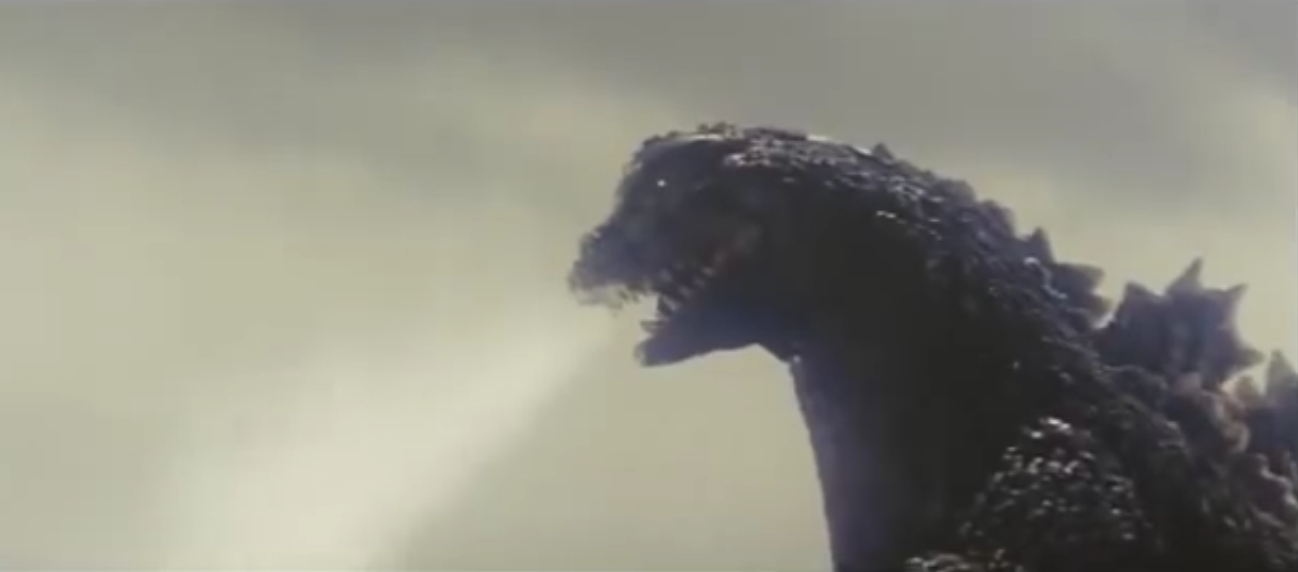 Scene from King Kong vs Godzilla.